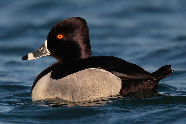 Ring-necked Duck -- Humber Bay Park (East), Toronto, Canada -- 2006 March